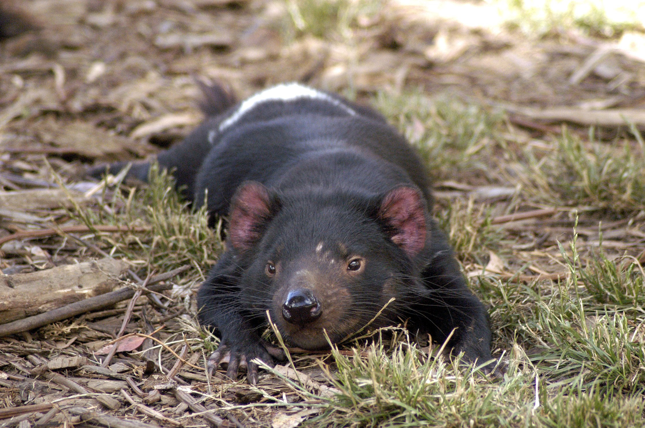 Tasmanian Devil relaxing.